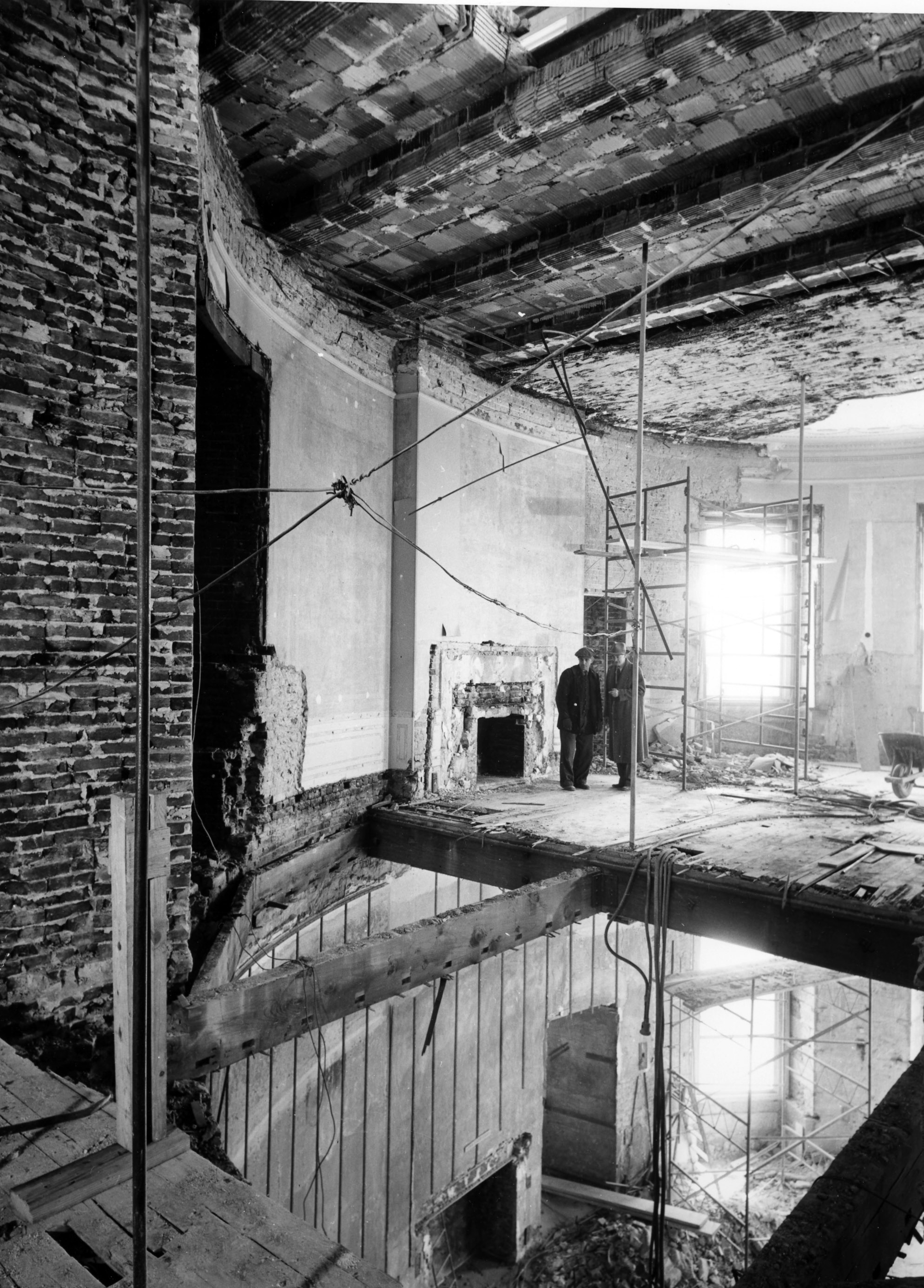 General notes: Two unidentified men stand in what remains of the second floor Oval Study above the Blue Room. The north wall and part of the floor have been removed for the installation of steel shoring columns.